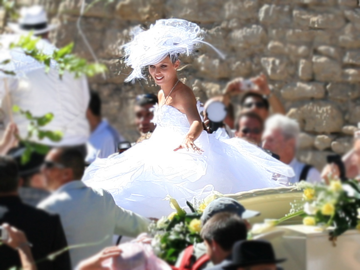 Sylvie Tellier, Miss France 2002 in the village of Gordes, Vaucluse, France